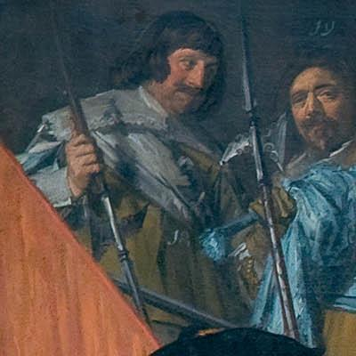 Portrait of Pieter de Jong standing next to Frans Hals himself in The officers and non-commissioned officers of the Saint George Civic guard in Haarlem in 1639, detail